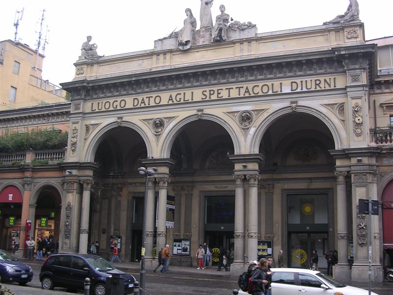 Theater Arena del Sole, Bologna Picture by Paolo Carboni (myself)